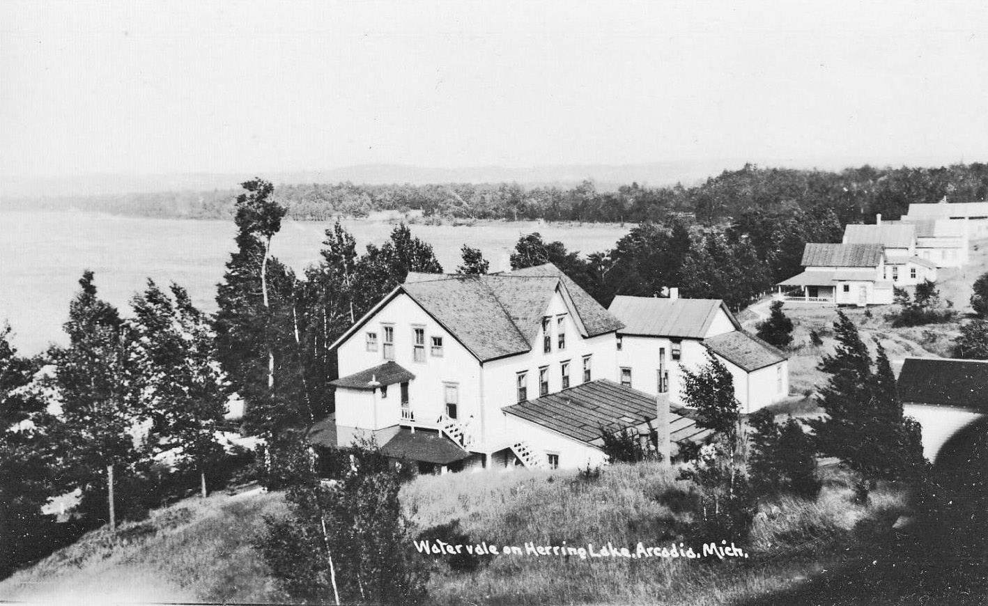 Watervale MI c1950 NRHP#03000624